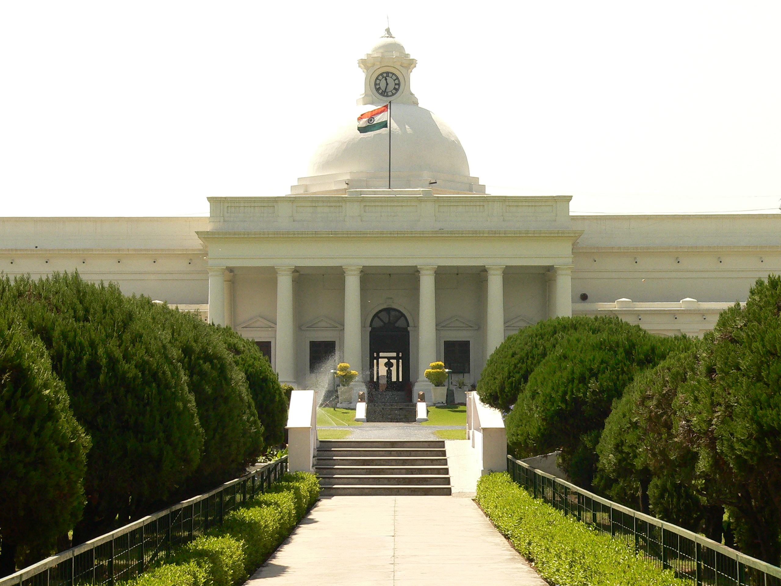 Main Administrative Building IIT Roorkee